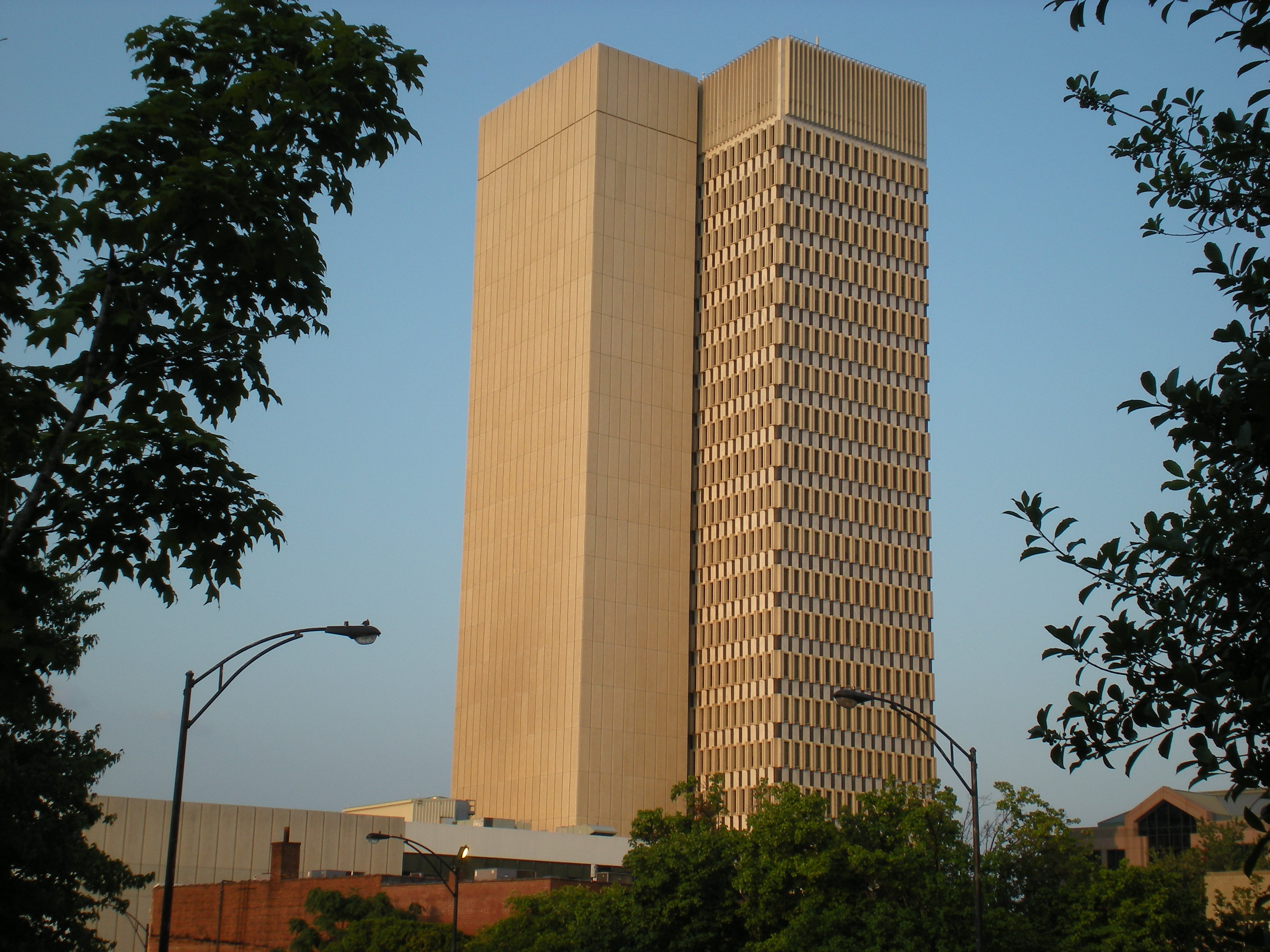 Another walk down Main Street and downtown Greenville, South Carolina. This is Landmark Building. It was formerly the Daniel Building and housed one of Greenville's home of an internationally known construction company. August 14, 2009.